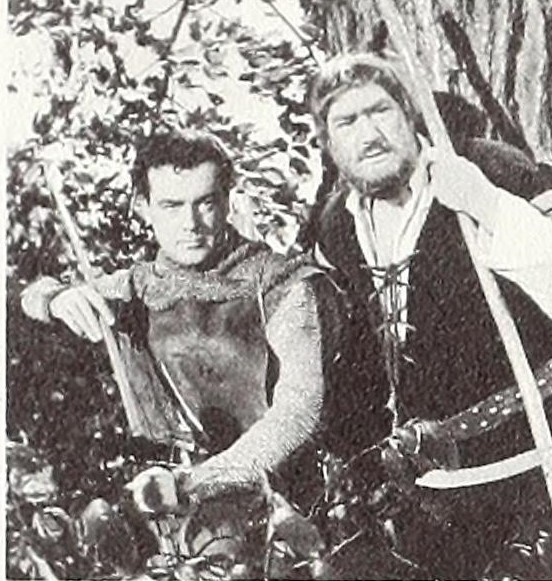 Richard Greene as Robin Hood and Archie Duncan as Little John